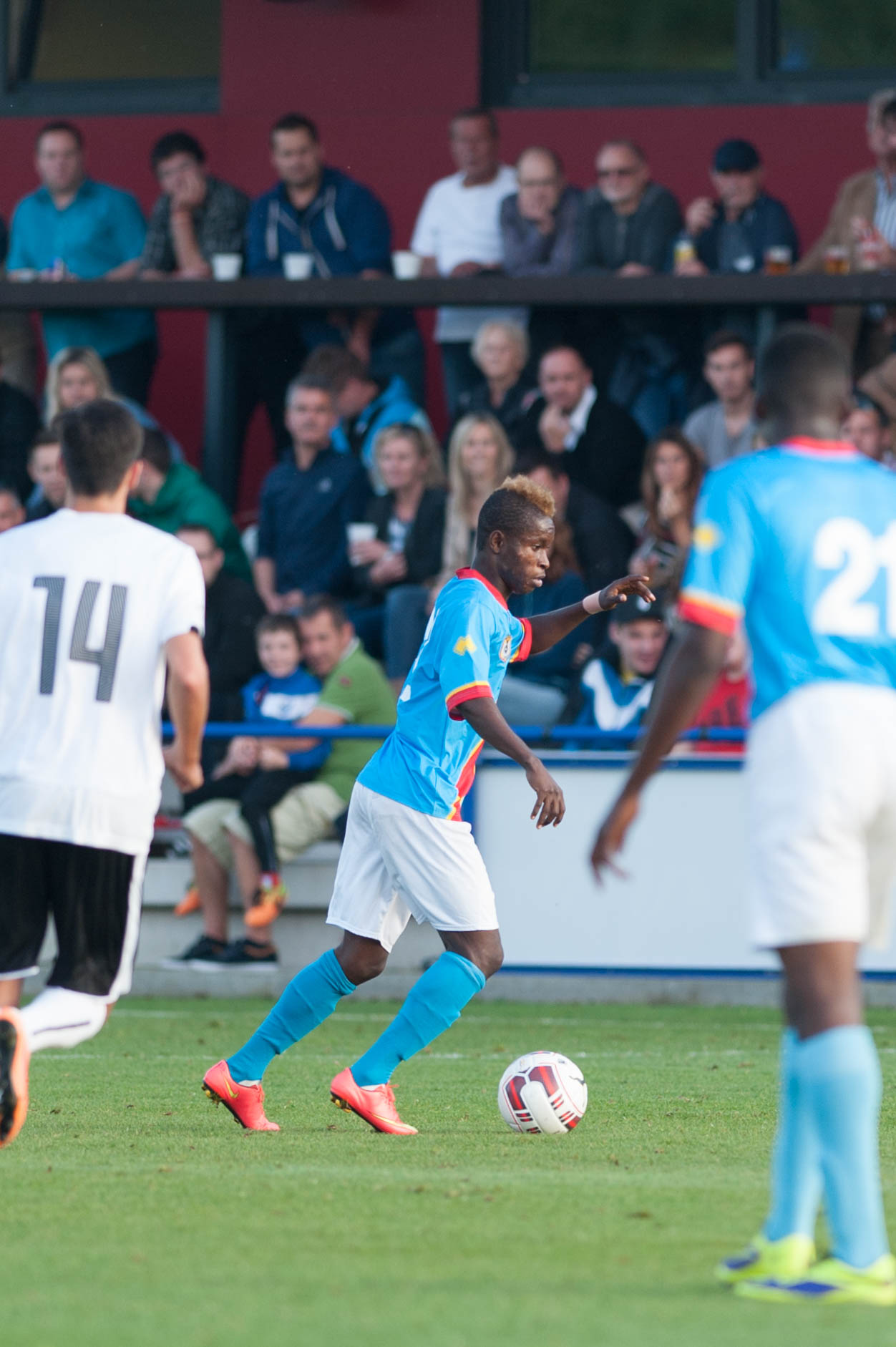 U21 Austria - DR Congo, 2014-10-12: Andre Bukia